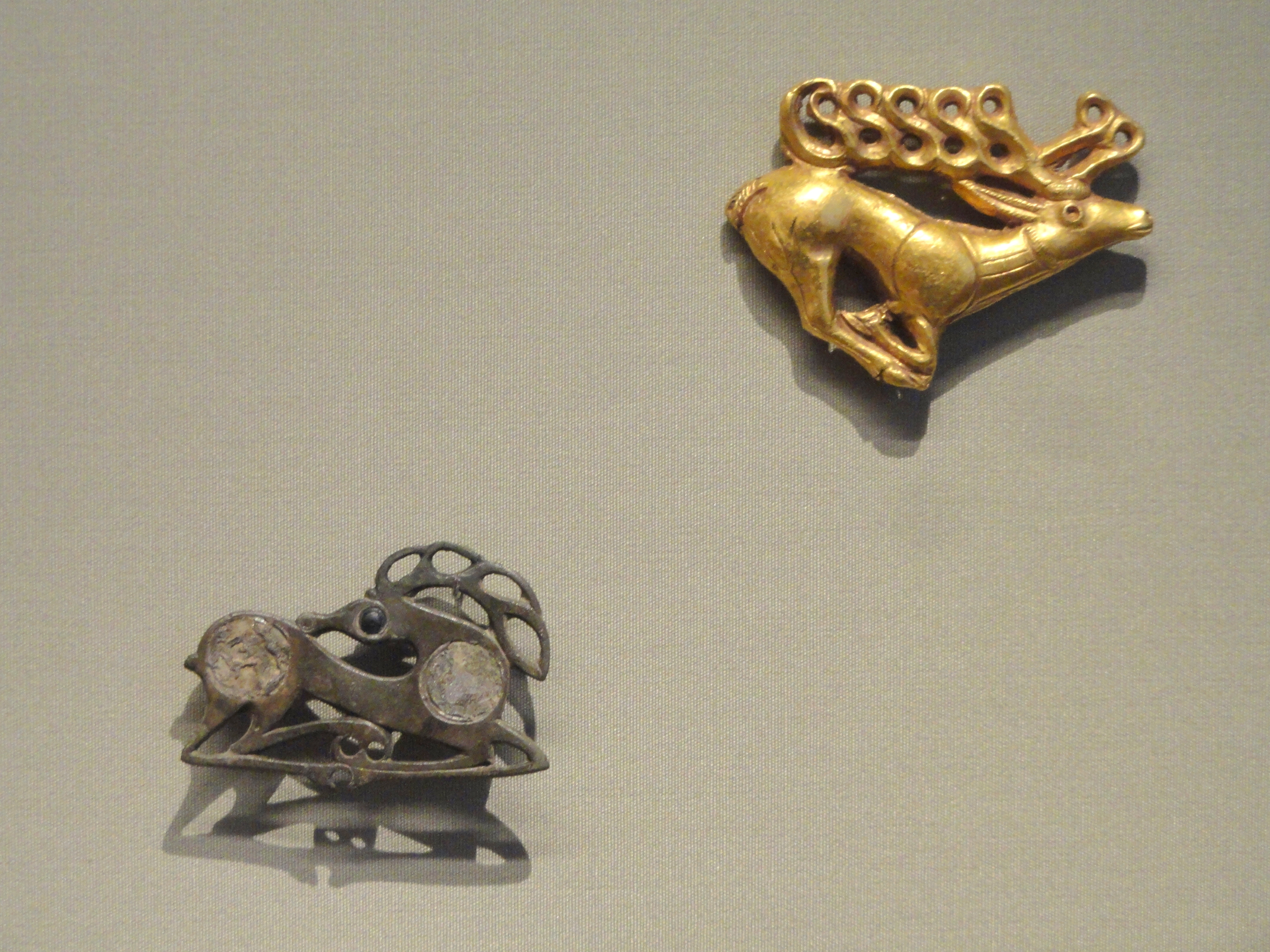 Exhibit in the Cleveland Museum of Art, Cleveland, Ohio, USA. This artwork is old enough so that it is in the public domain.